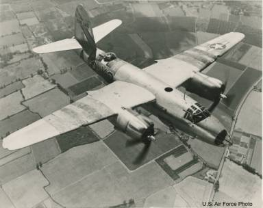 A U.S. Army Air Forces Martin B-26B-55-MA Marauder (s/n 42-96142). The aircraft was assigned to the 596th Bomb Squadron, 397th Bomb Group,98th Bomb Wing, 9th Bomber Command, 9th Air Force in Europe. "X2-A" was named "Dee Feater" and carries numerous mission markers, and D-Day invasion stripes. The 397th BG was stationed starting 15 April 1944 at Rivenhall, Essex (UK), and moved to Hurn, Hampshire, on 4 August 1944. On 30th August 1944 the Group was relocated to France.